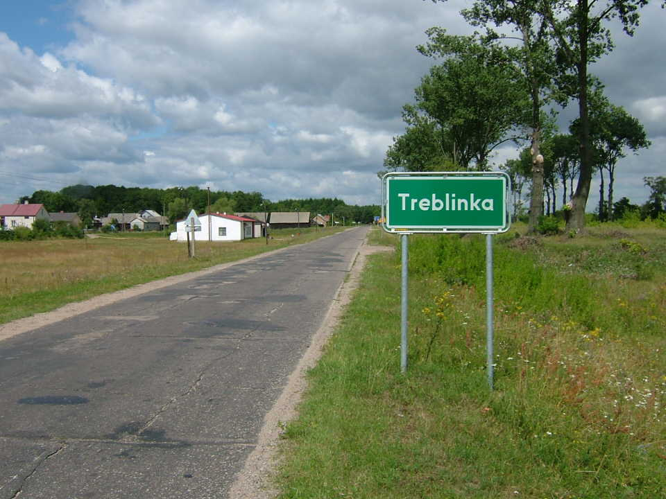 Original digital image. Signalhead 14:48, 18 February 2007 (UTC)